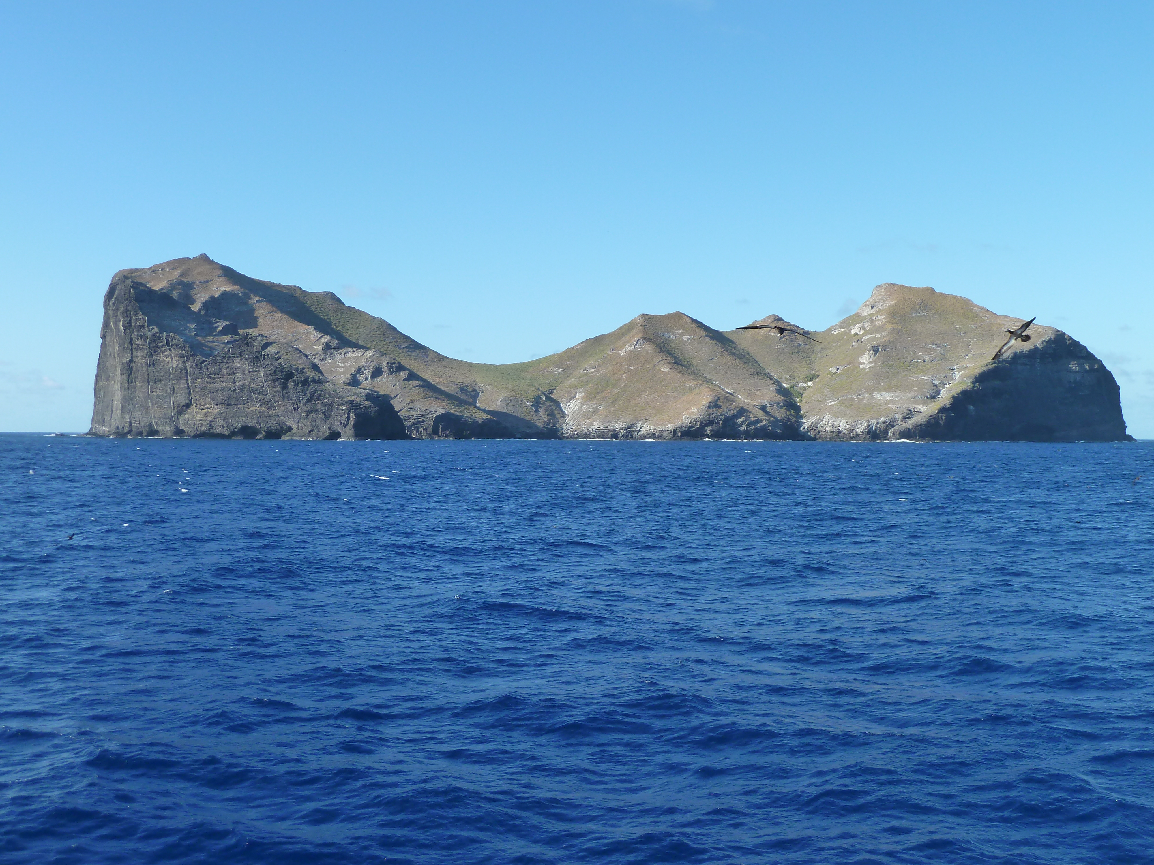 Nihoa, Northwestern Hawaiian Islands, USA.